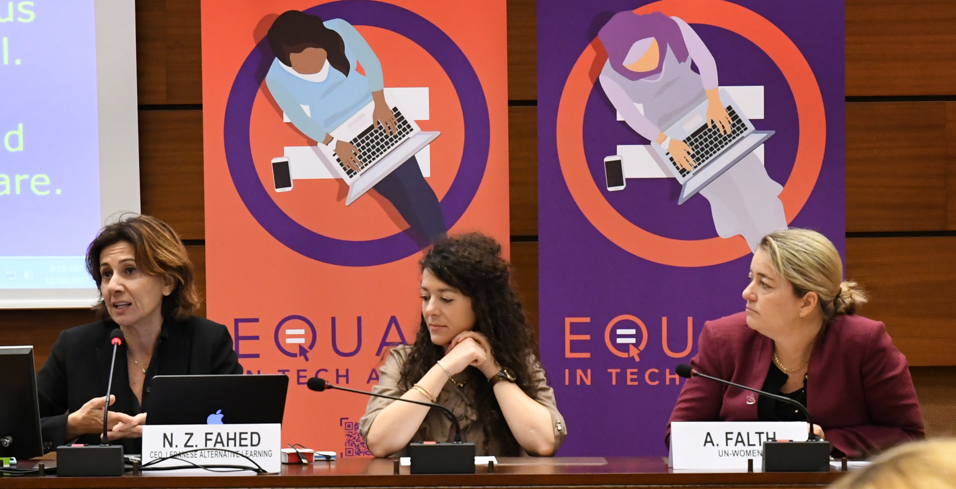 Nayla Zreik Fahed and Anna Falth at the EQUALS in Tech Panel Discussion, held 20 December 2017 at the Palais des Nations, Geneva, during the 2017 Internet Governance Forum.